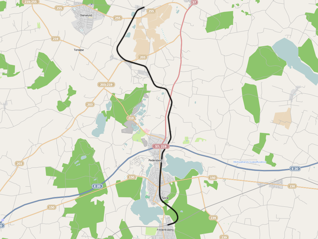 Railway line Sorø - Vedde